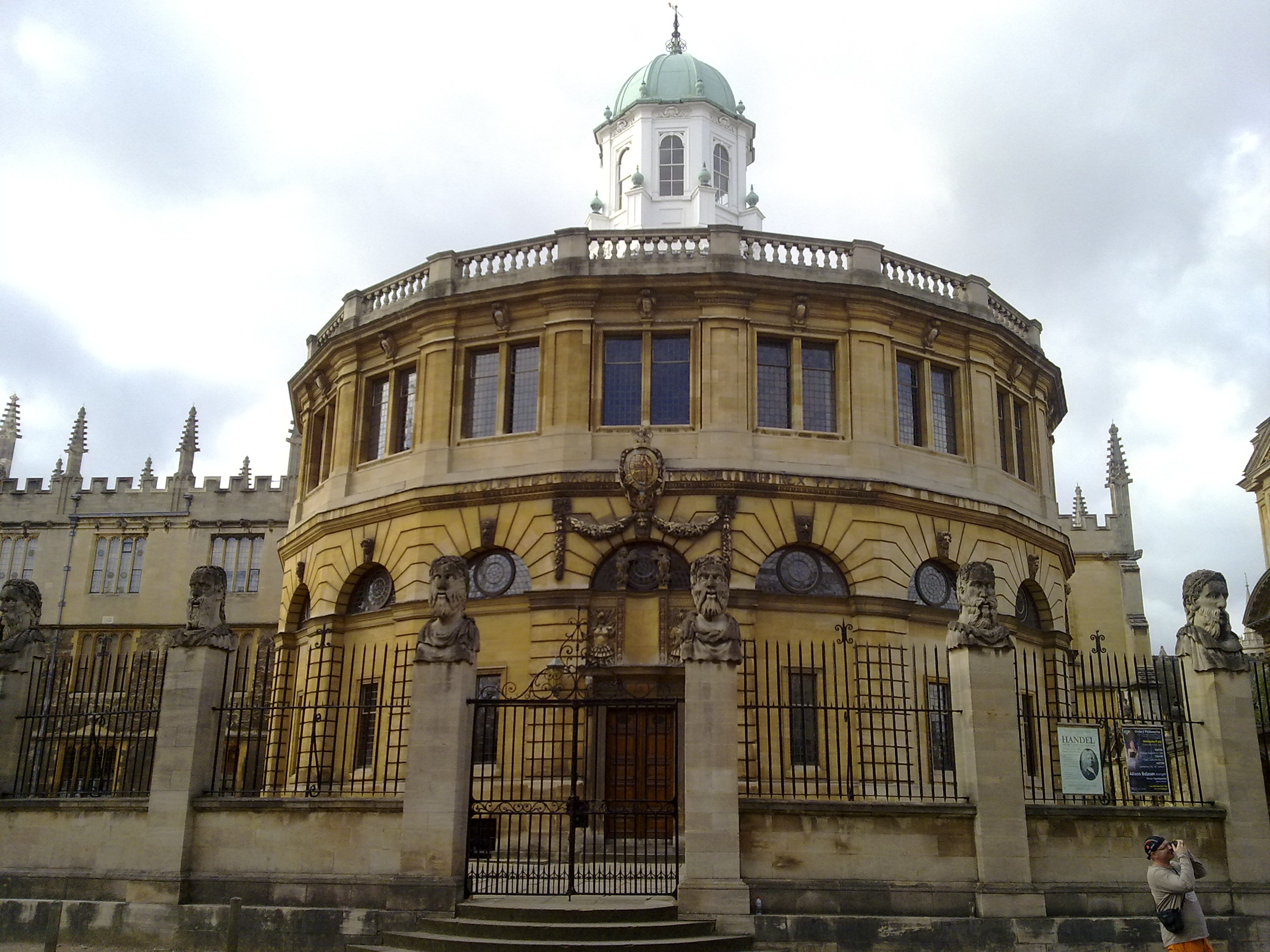 The Sheldonian Theatre viewed from the opposite side of Broad Street, Oxford.